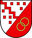 Coat of Arms of Pommern (Mosel)Pommern